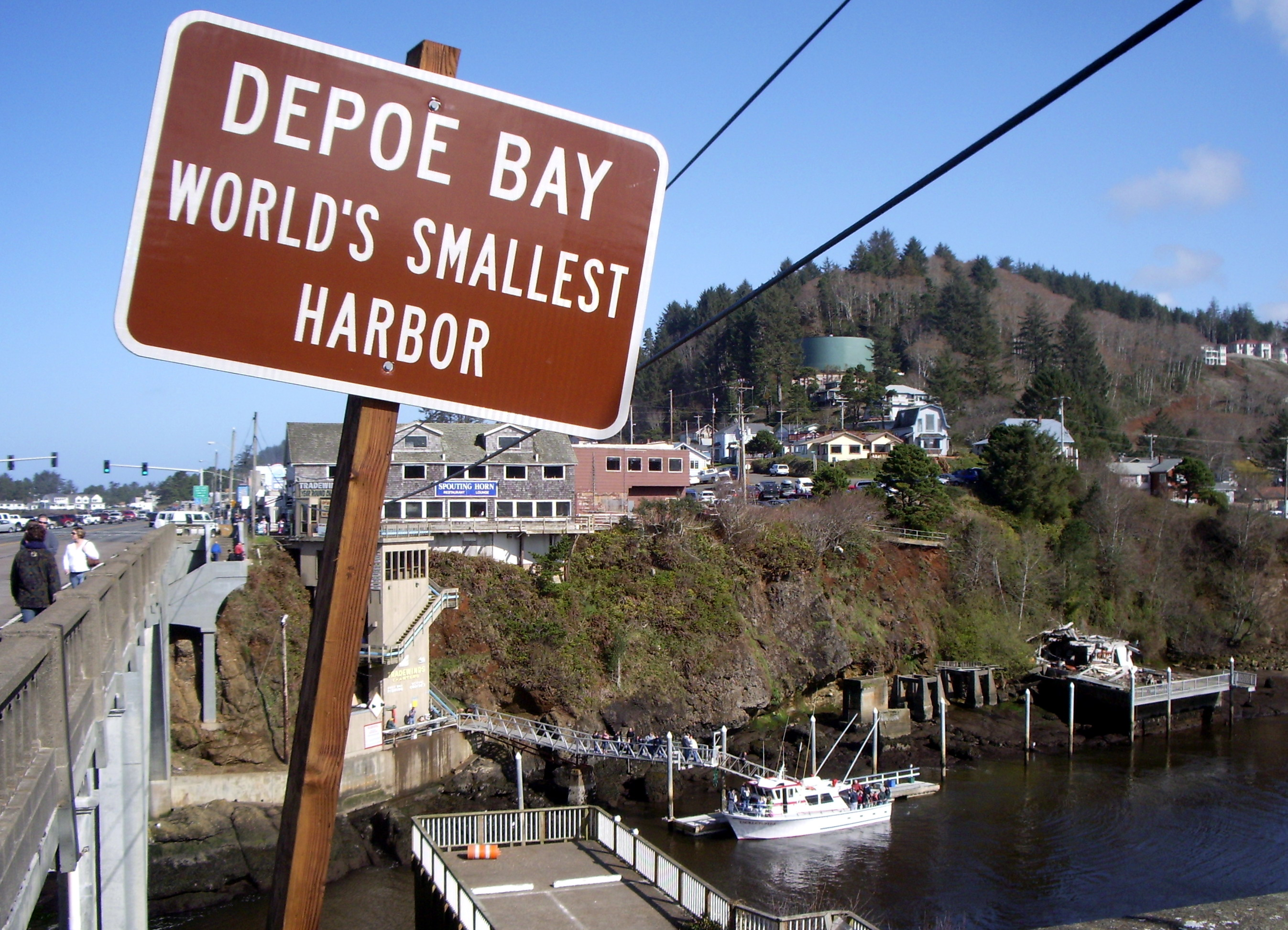 South entrance to Depoe Bay, Oregon is a bridge over the harbor entrance carrying Hwy 101. The world's smallest harbor is six acres.